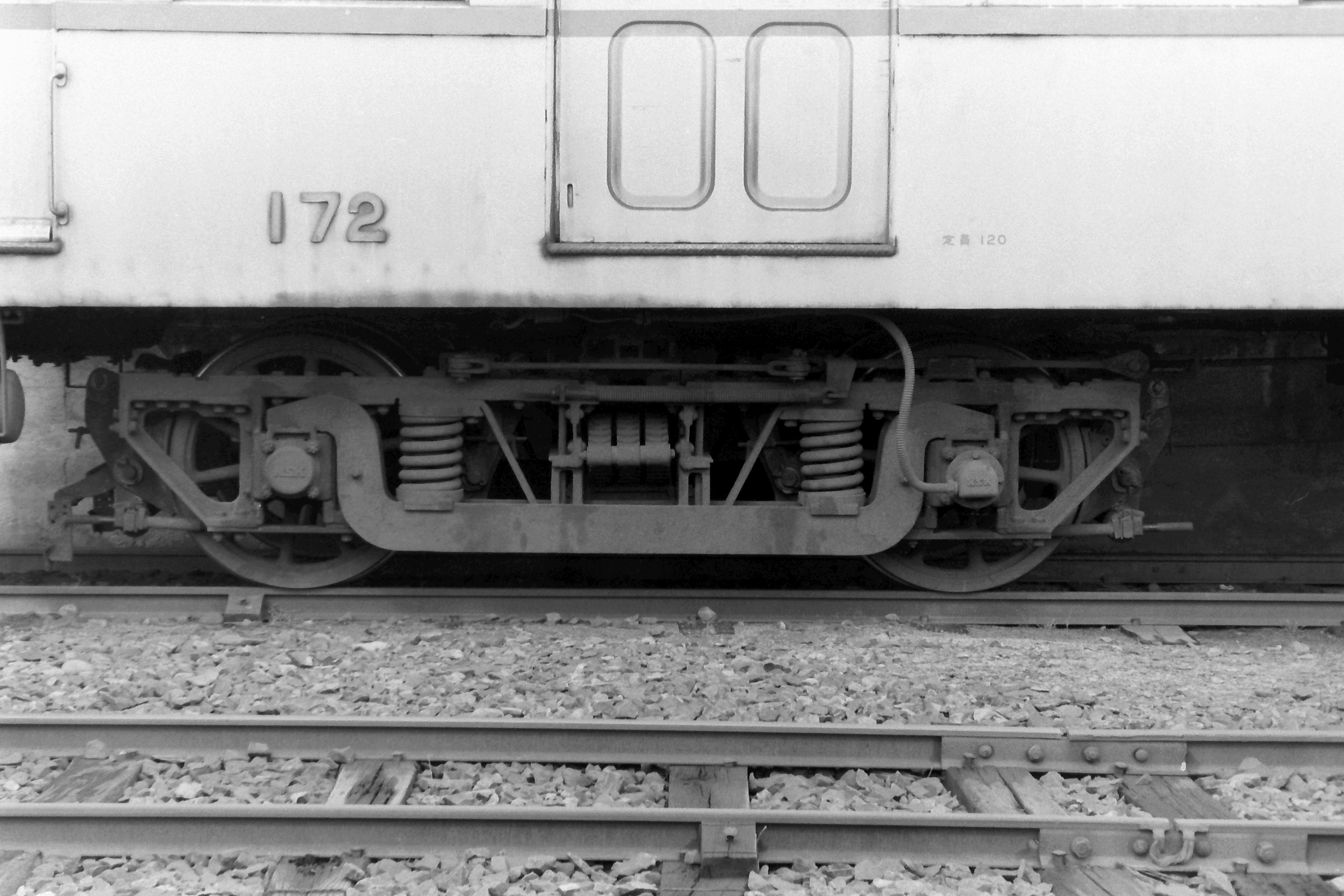 Bogie truck on Ihibata 172